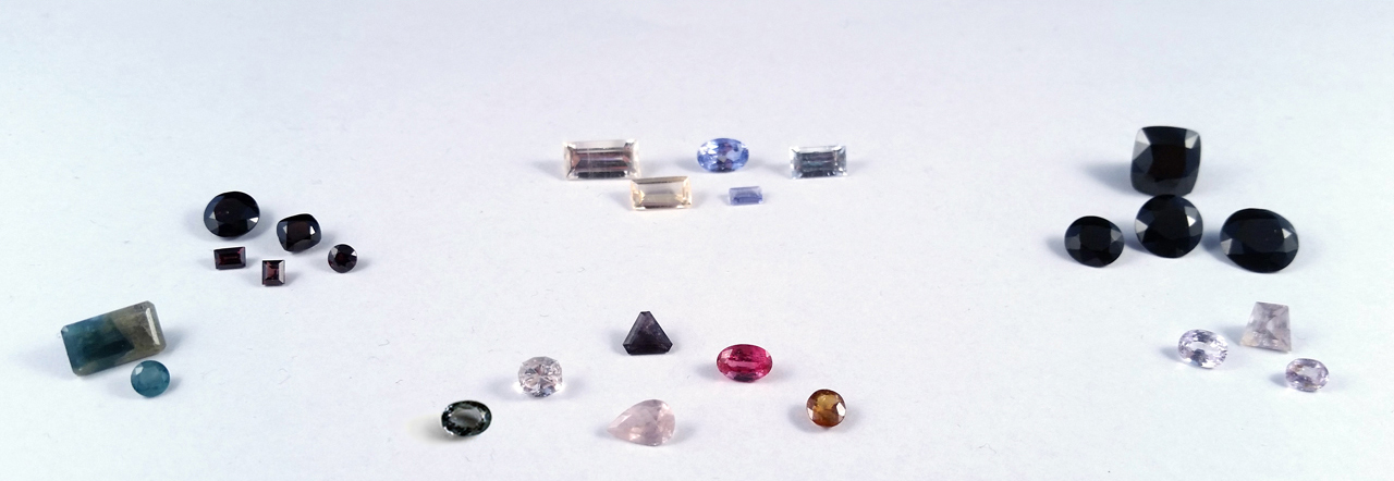 photo series: Some of the rarest Gemstones in the World